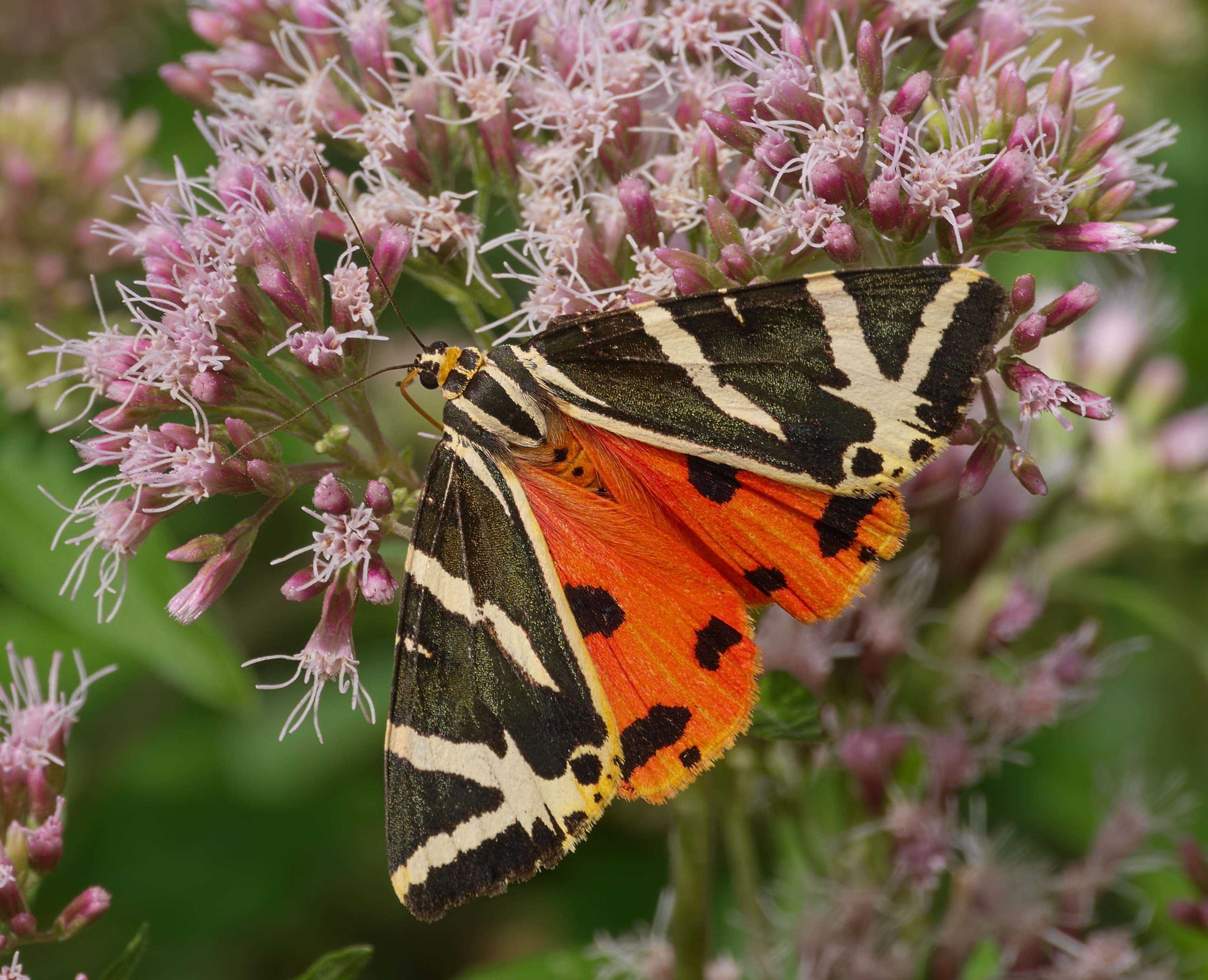 Jersey Tiger - Euplagia quadripunctaria. Taken in Oberkirch, Baden-Württemberg, Germany.